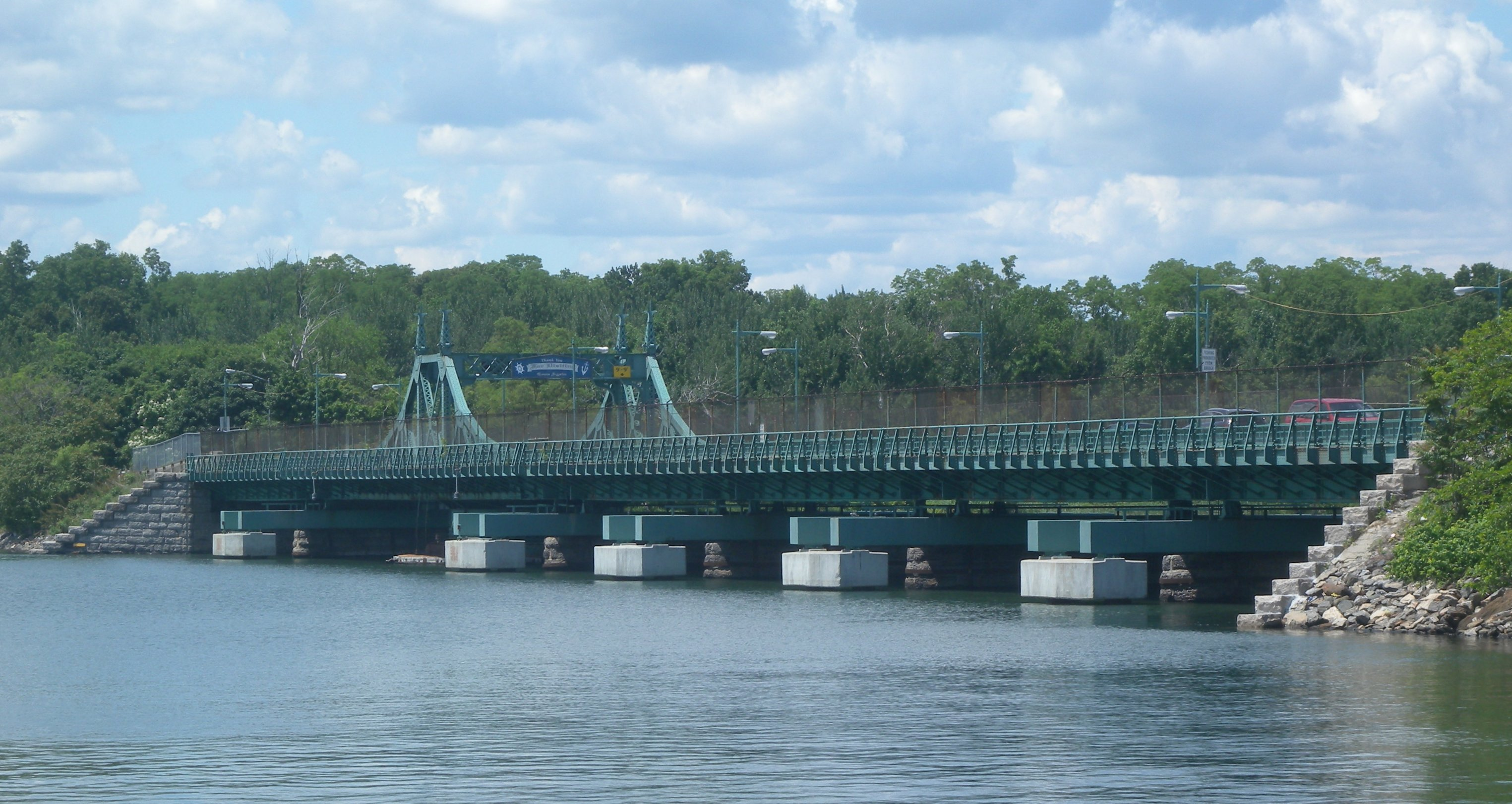 Looking northwest, full zoom, at City Island Bridge from near Kilroe Street on a sunny midday.